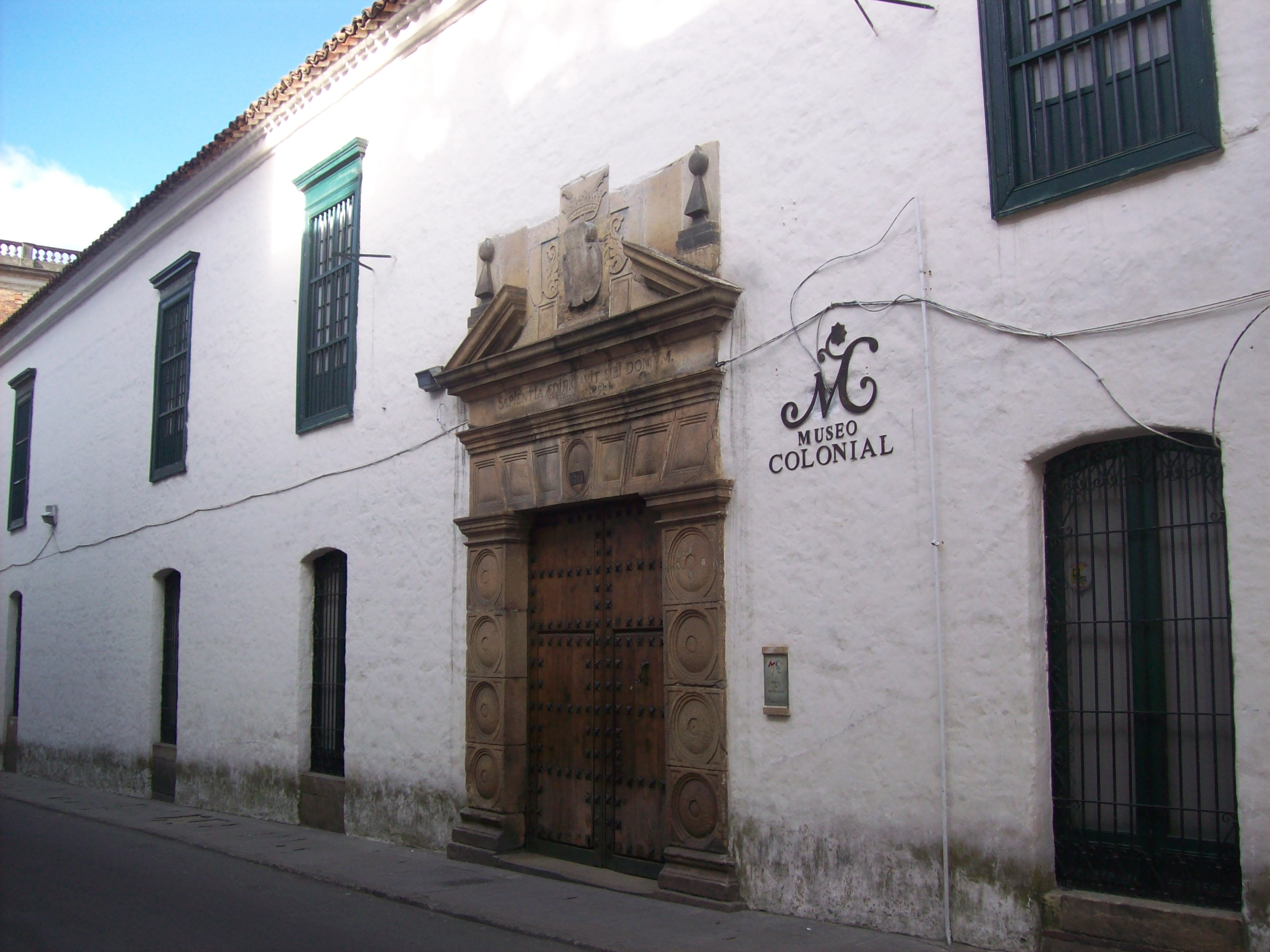 Museum of Colonial Art of Bogotá